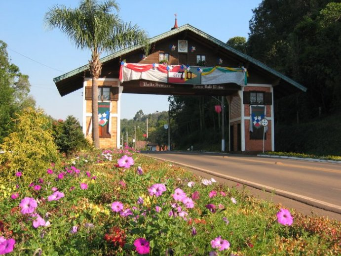 Treze Tílias - Dreizehnlinden, road entrance of the tyrolian village Treze Tílias in southern Brasil, inscription at the arch in Portuguese and